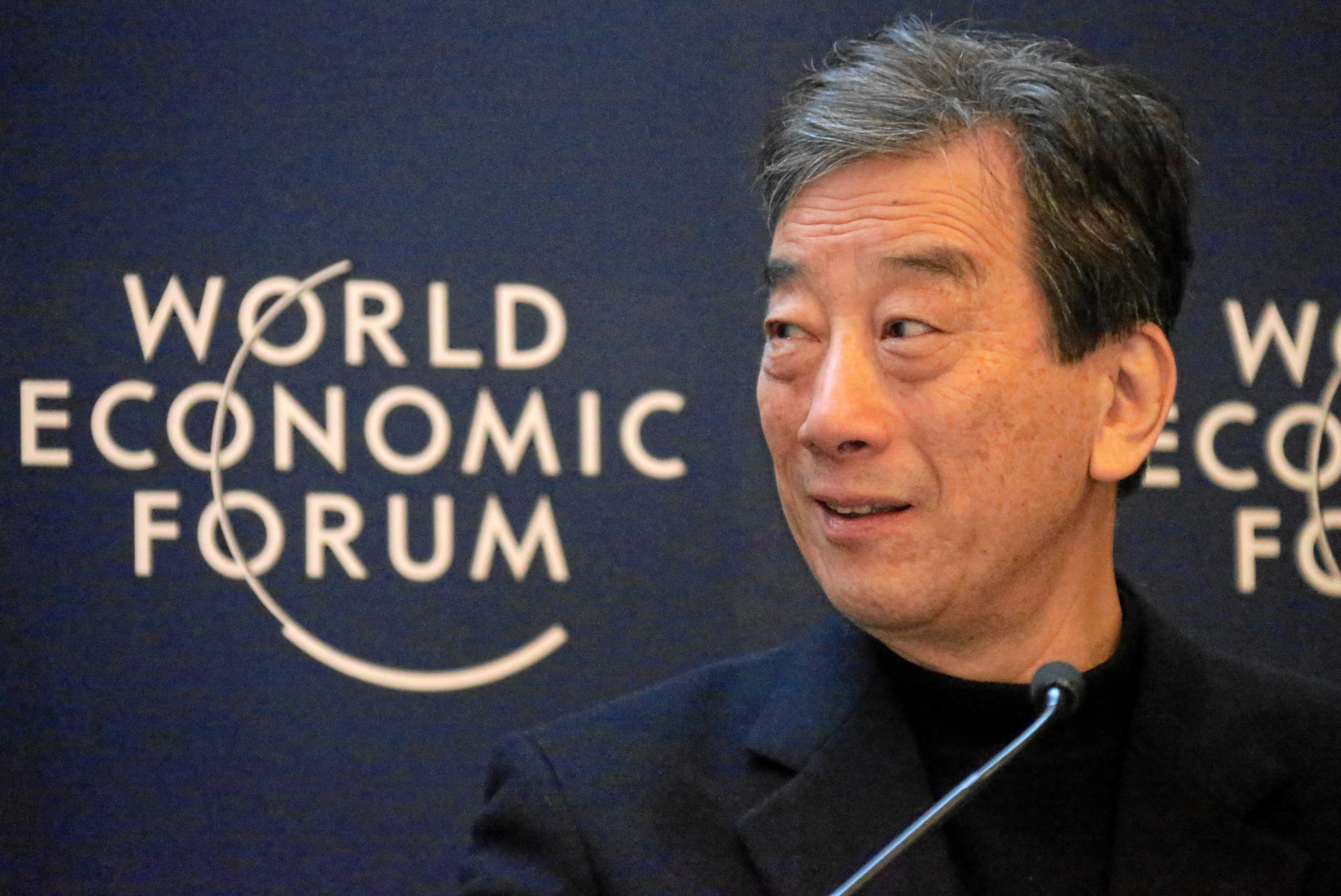 Kiyoshi Kurokawa, Academic Fellow of the National Graduate Institute for Policy Studies, spoke about "the Japan Growth Context" at the Annual Meeting of the World Economic Forum in Davos Municipality, Graubünden Canton on January 26, 2013.